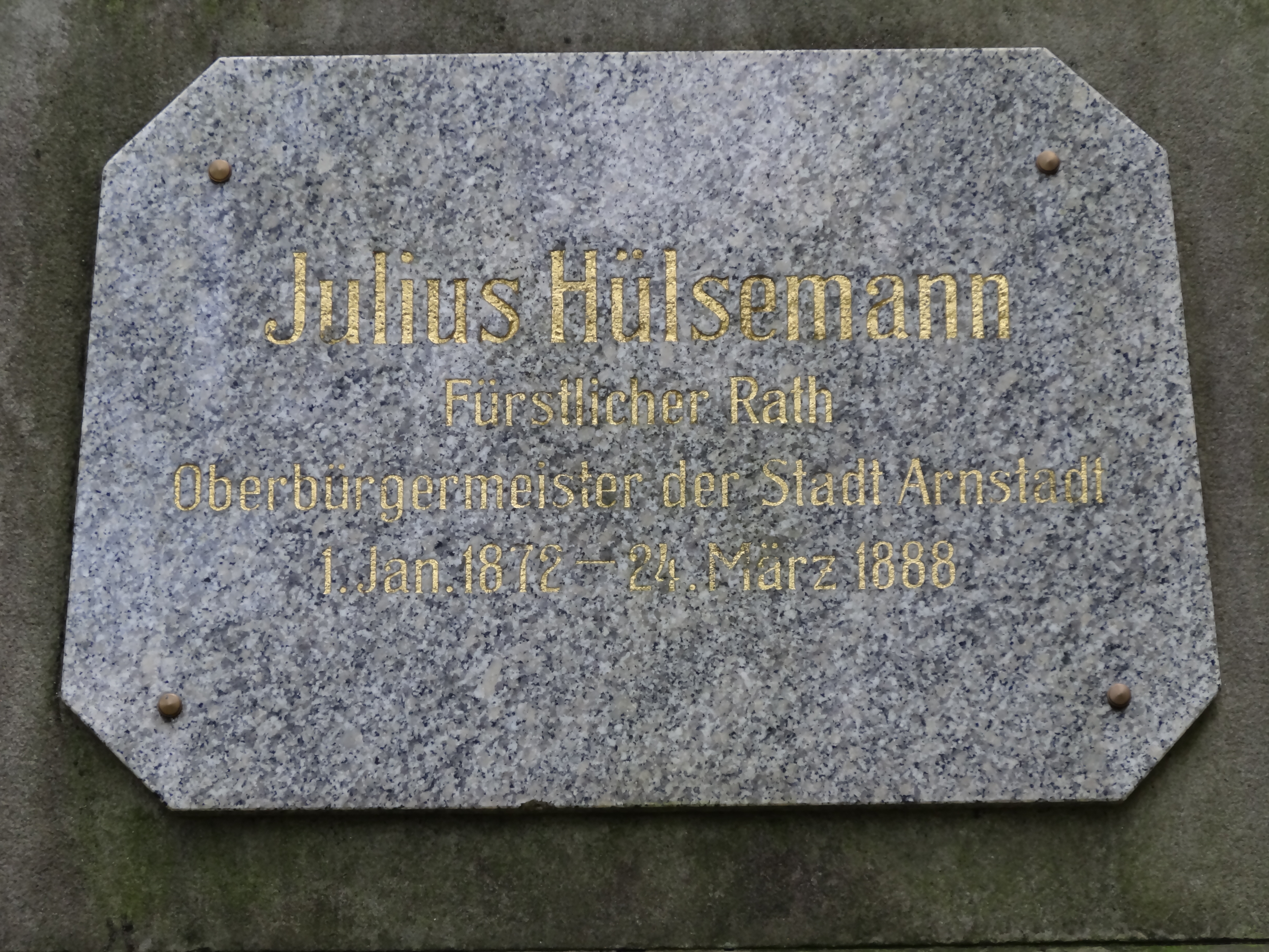 Plaque at the memorial for Julius Hülsemann in Arnstadt, Thuringia, Germany